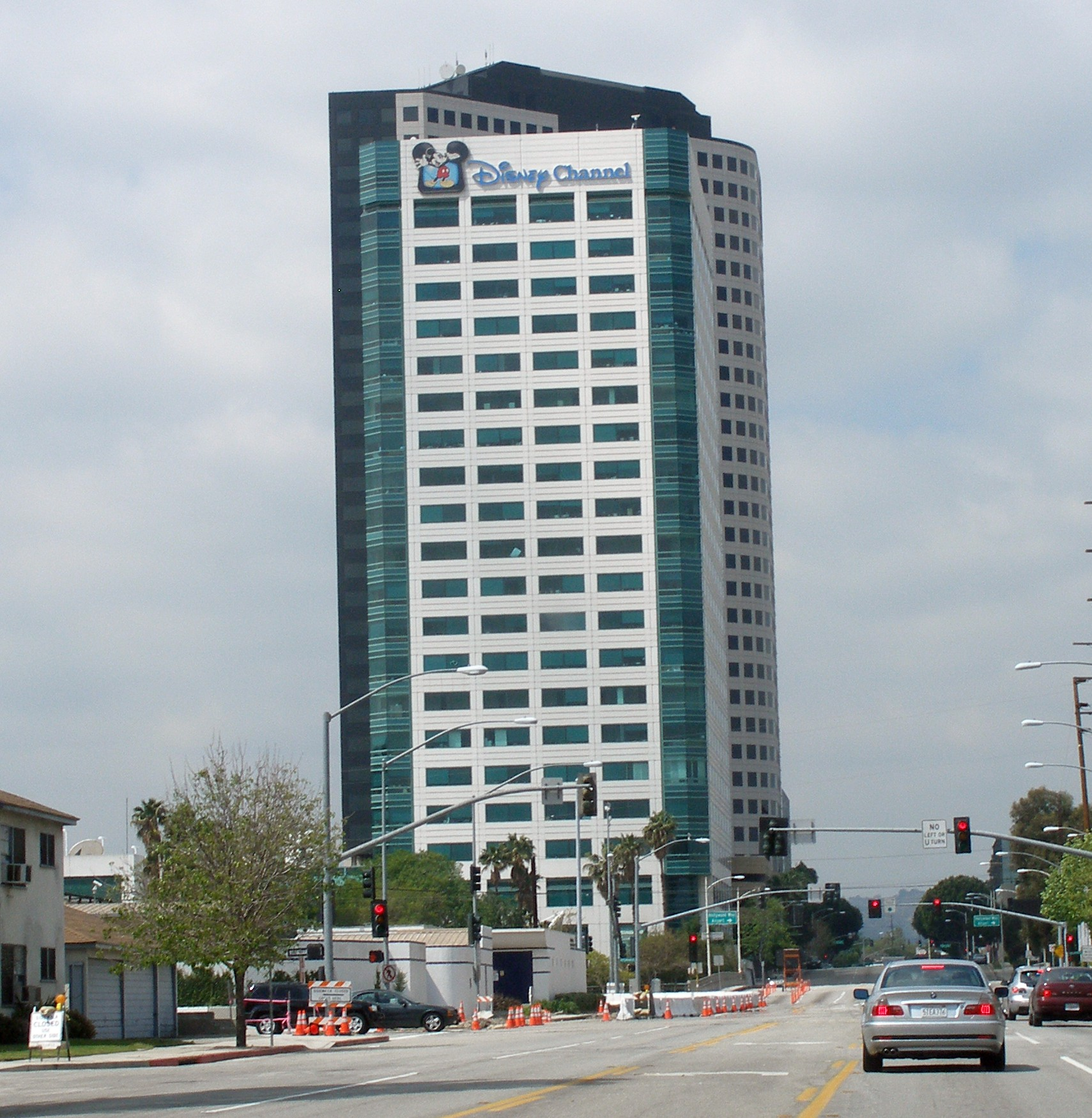 The headquarters of the Disney Channel in Burbank.